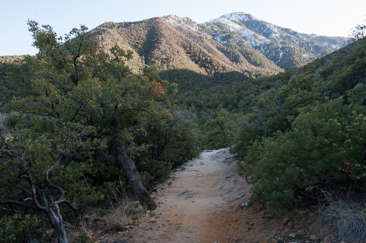 View of Miller Peak from Clark Spring Trail #124, Huachuca Mountains, Arizona.